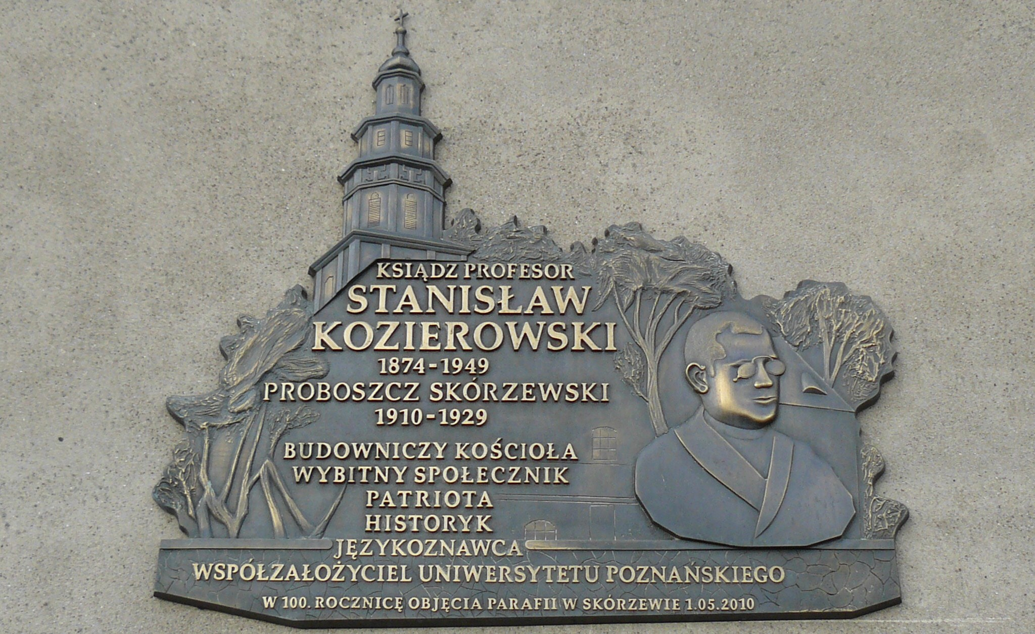 Stan. Kozierowski Plaque, Skorzewo Church.